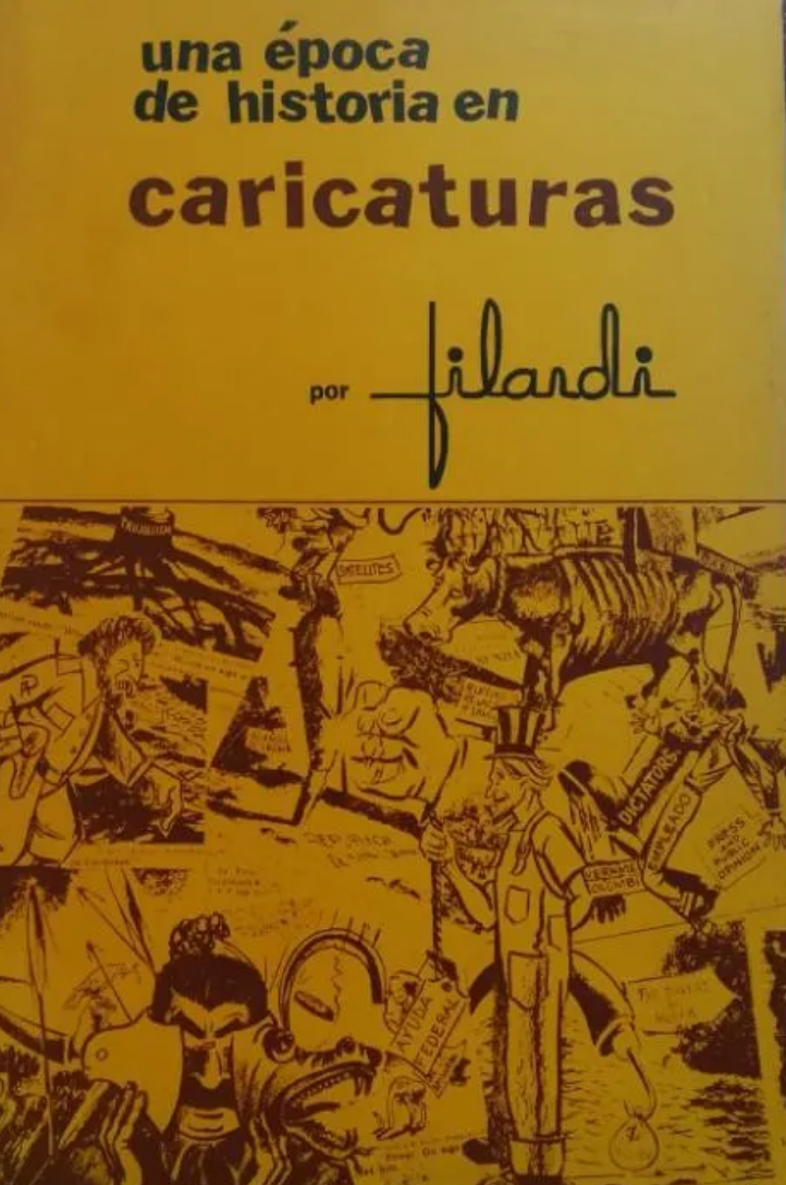 Cover of Una Época de historia en Caricaturas by Carmelo Filardi